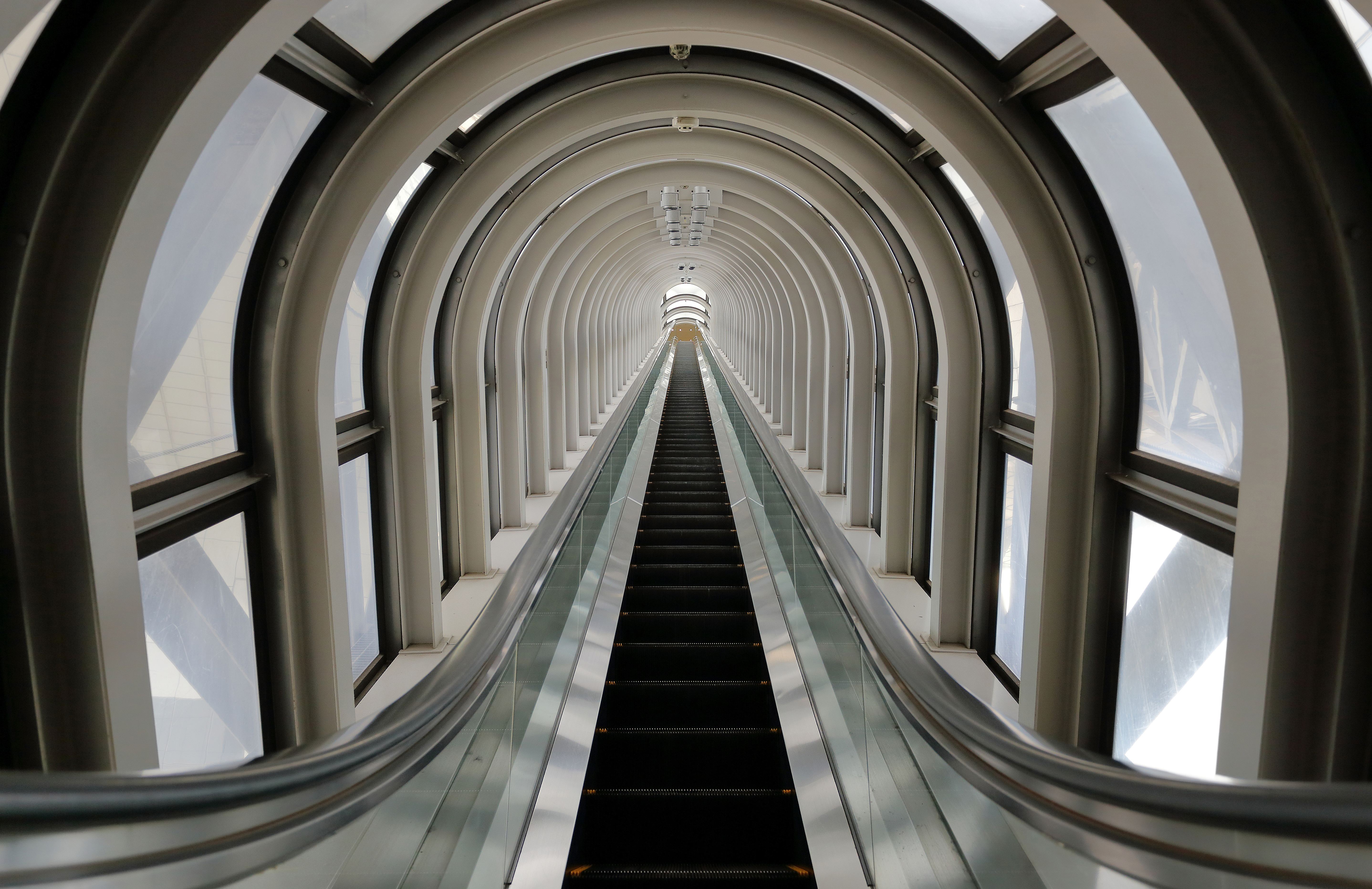 Umeda Sky Building, designed by Hiroshi Hara and completed in 1993, is the nineteenth-tallest building in Osaka Prefecture, Japan, and one of the city's most recognizable landmarks. It consists of two 40-story towers (173m) that connect at their two uppermost stories, with bridges and an escalator, depicted here, crossing the wide atrium-like space in the center.